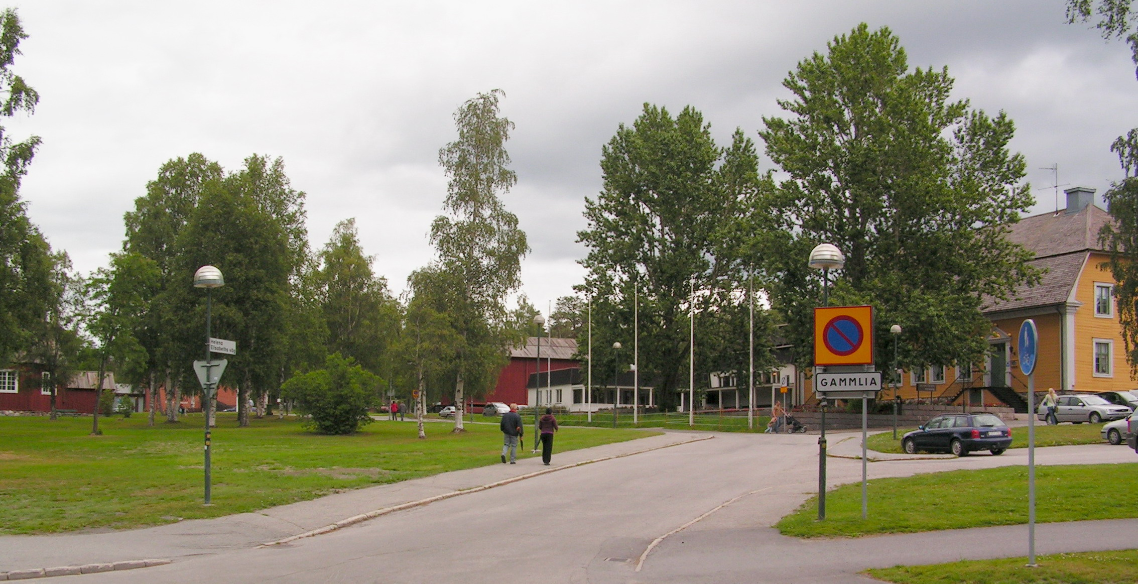 The open air museum Gammlia, Umeå, Sweden.